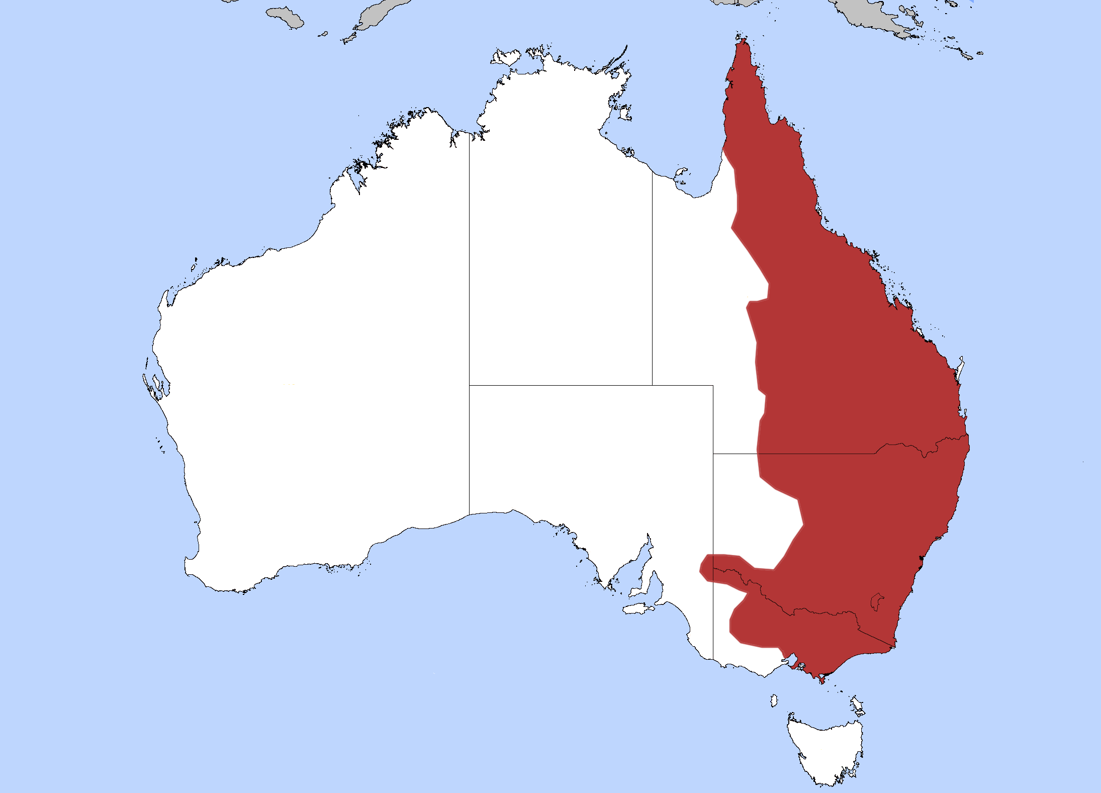 The Distribution of the Noisy Friarbird